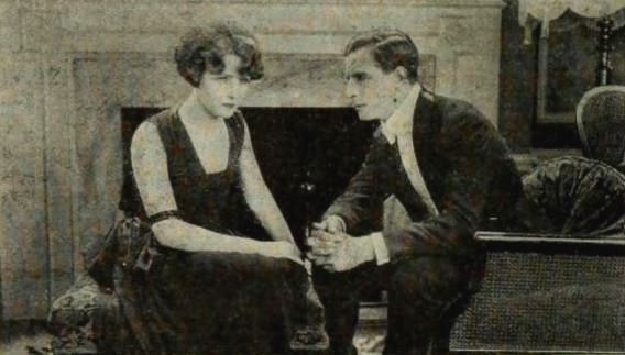 Still from the American drama film One Clear Call (1922) with Claire Windsor and Milton Sills, on page 62 of the August 1922 Photoplay.